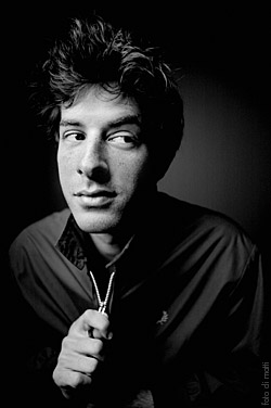 Portrait of Mark Ronson, photographed by Matti Hillig. The photo was taken in Berlin on May 21, 2007. Mark Daniel Ronson (born 4 September 1975) is an English DJ, musician, music producer, artist and co-founder of Allido Records. He produced albums for musicians like Amy Winehouse and Robby Williams. High-resolution versions of this and more photos are available. Please contact me